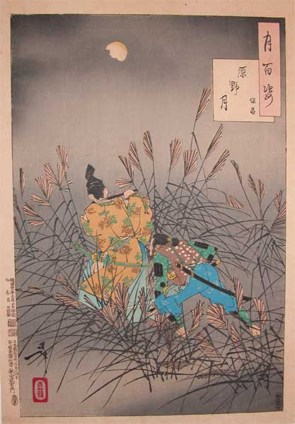 The moon of the moor (Harano no tsuki) or Moon over the Moor: Yasumasa